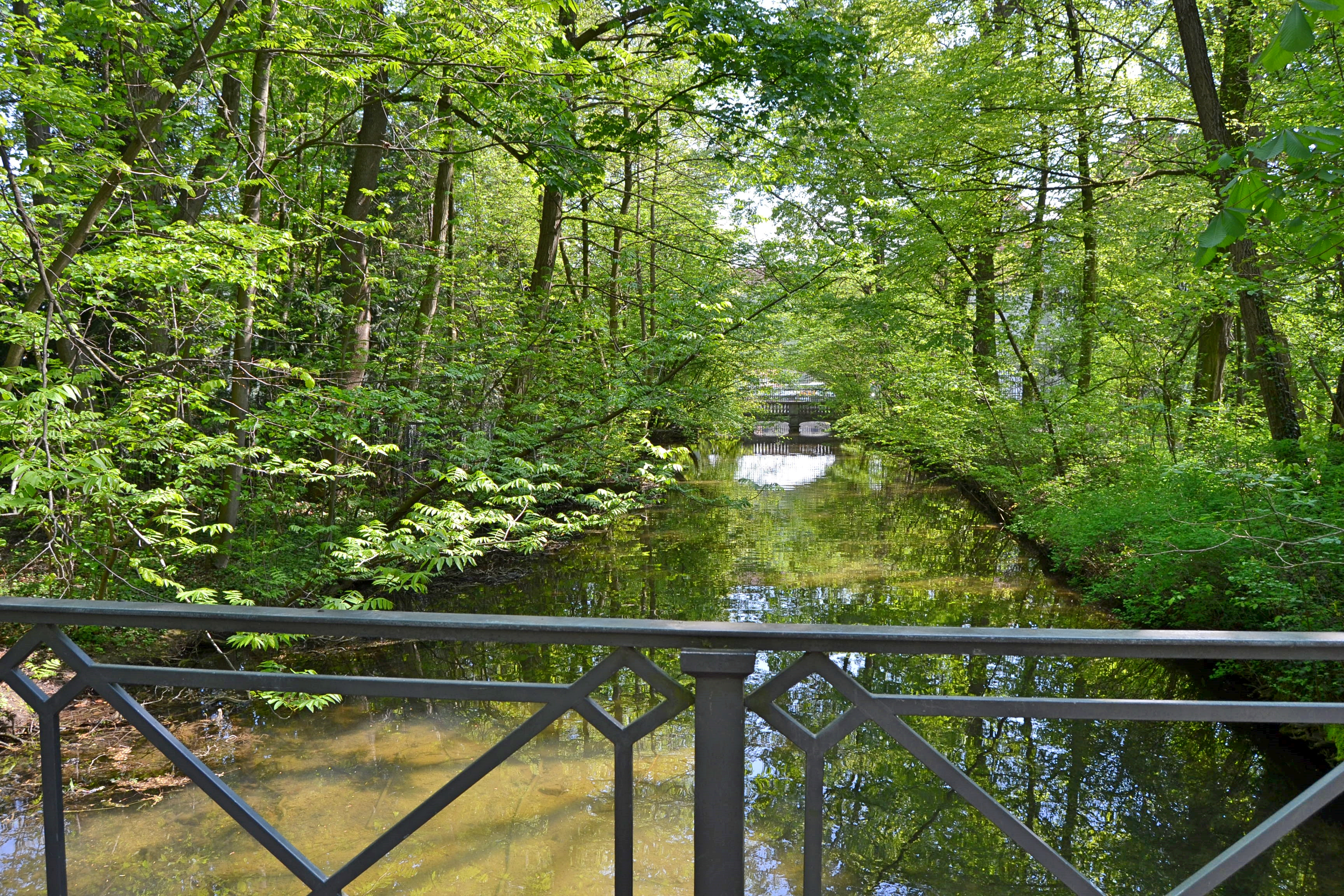 Nymphenburg landscape protection area in Bayern, Germany